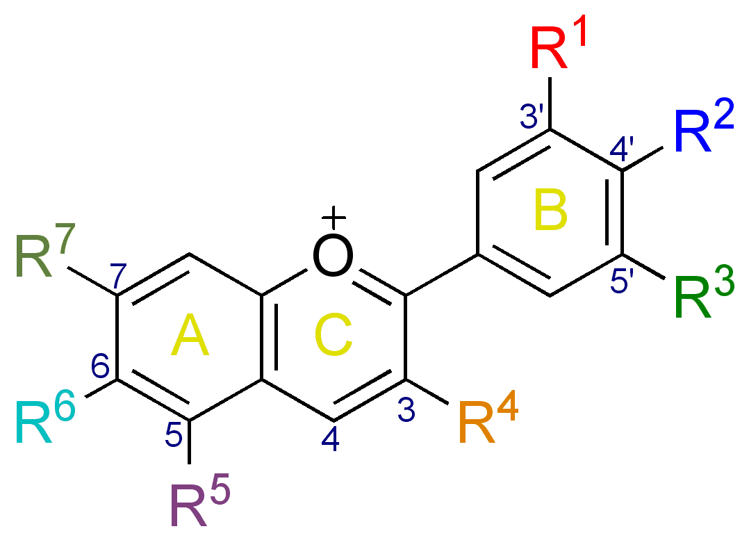 Chemical structure of anthocyanidin.